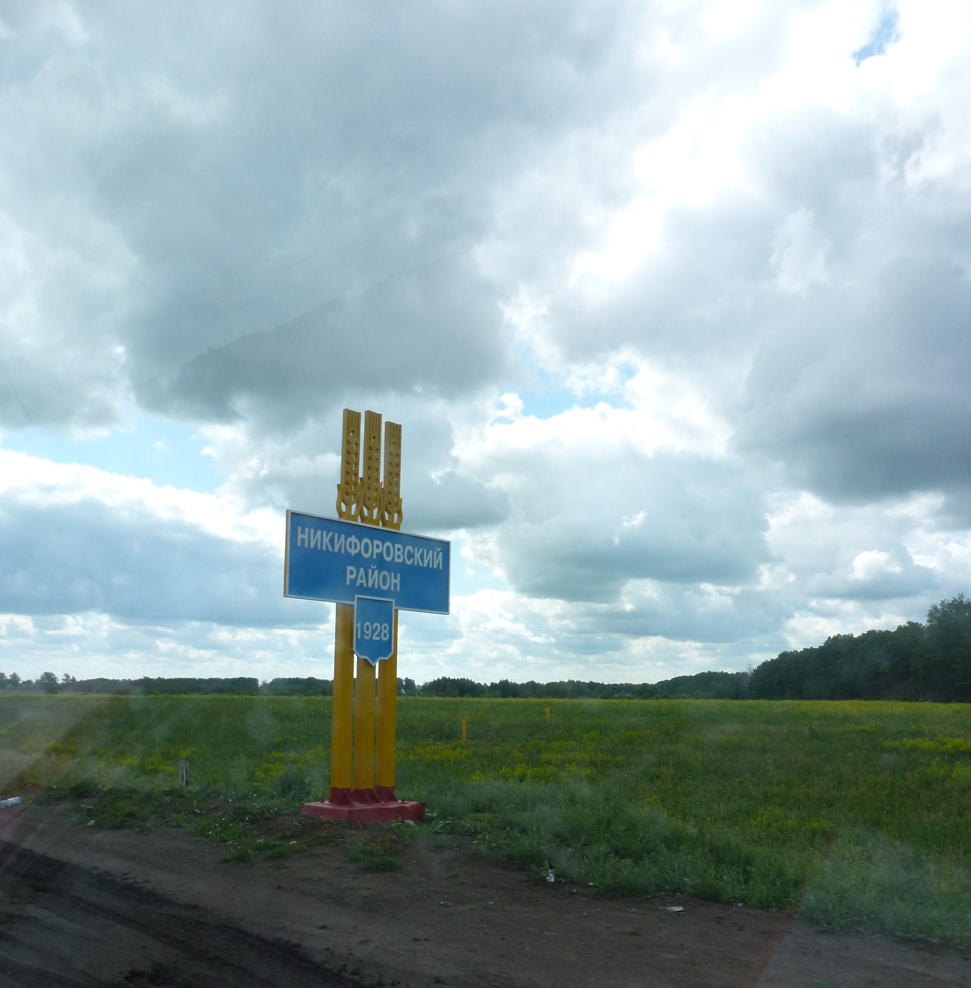 Entrance to Nikiforov District, Tambov Oblast